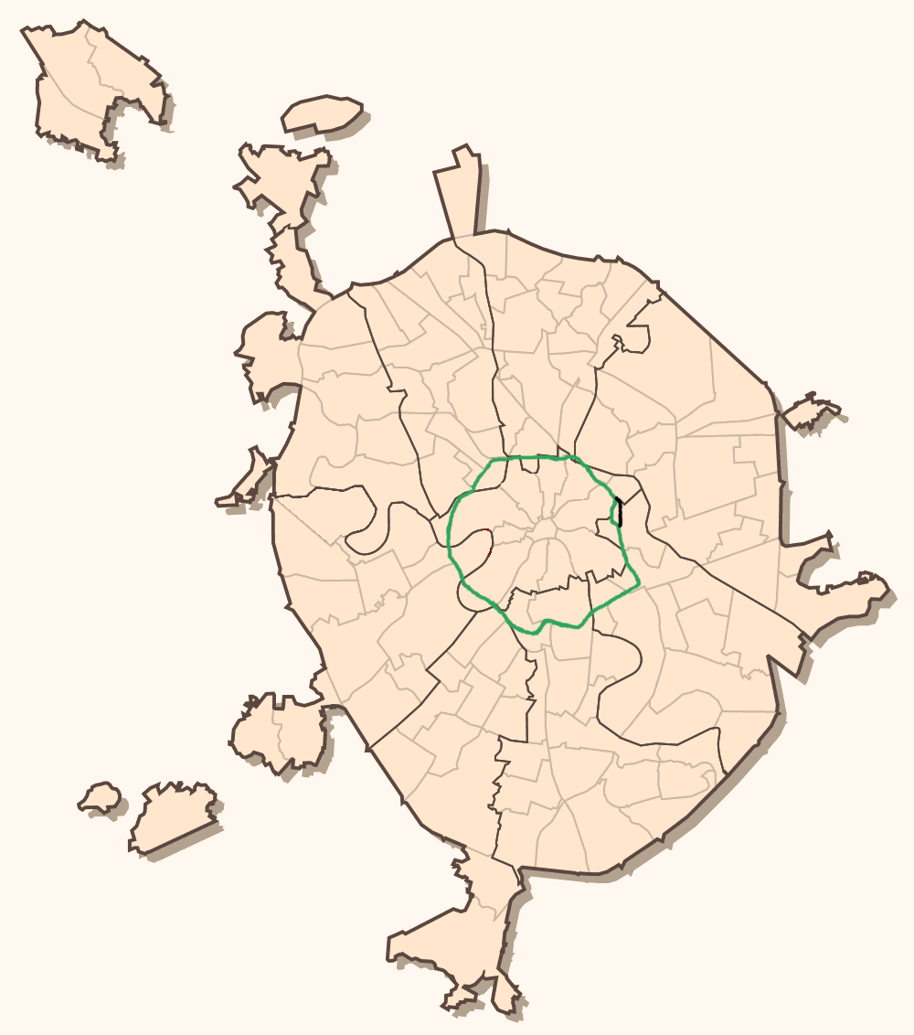 Tretiye transportnoye koltso (Third Ring Road) in Moscow